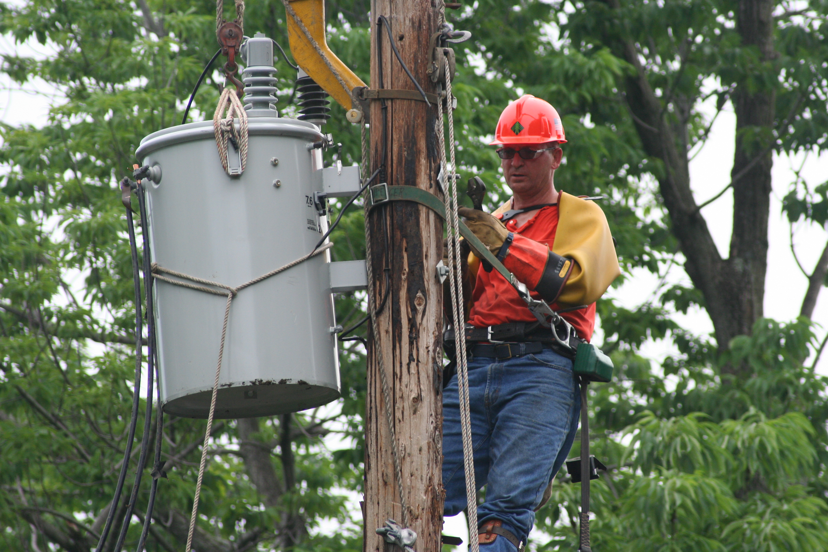 A Niagara Mohawk Power lineman installing a new transformer, replacing one that was fried by lightning.